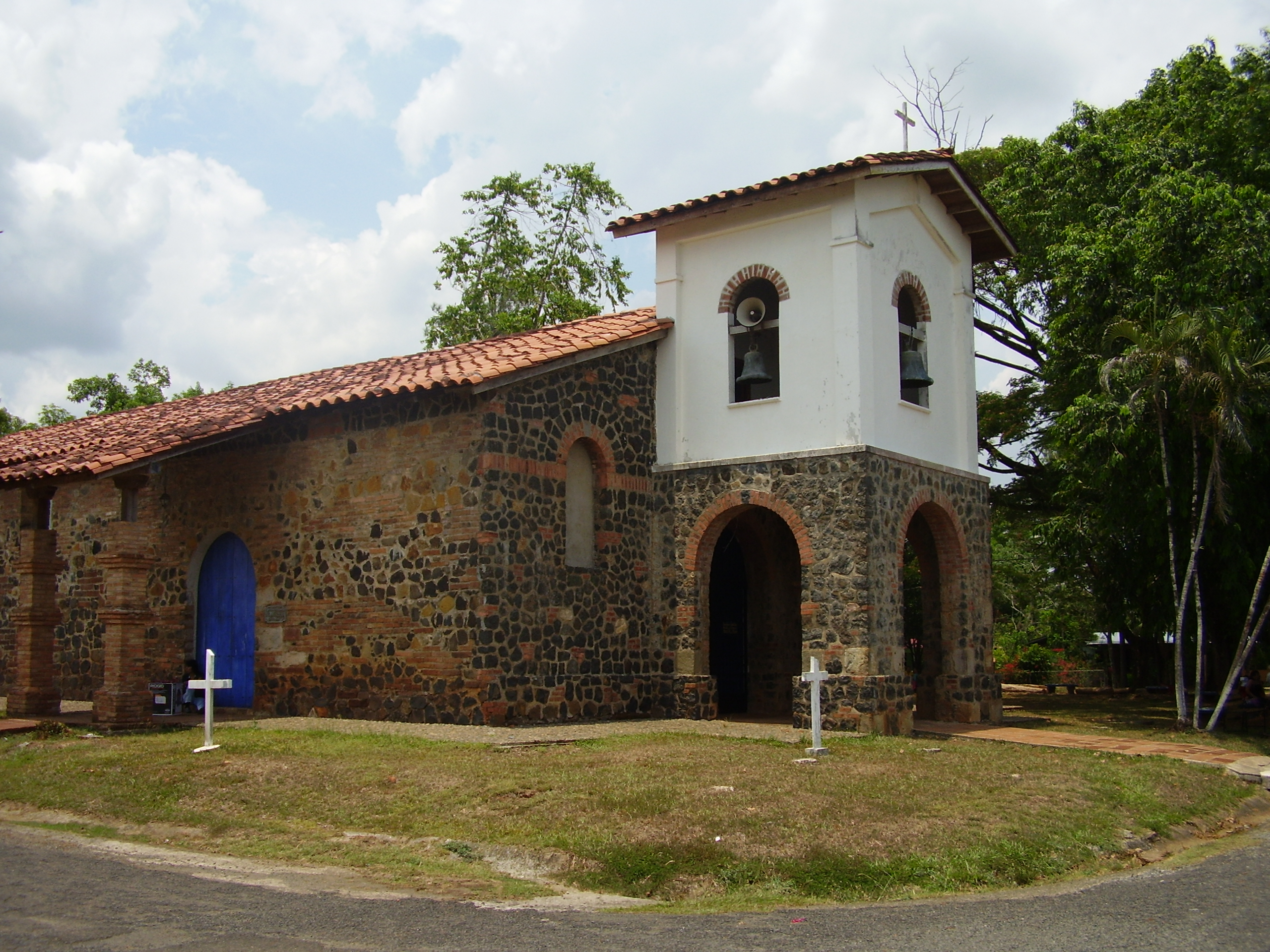 This is the church in San Francisco de la Montaña in Veraguas, Panama